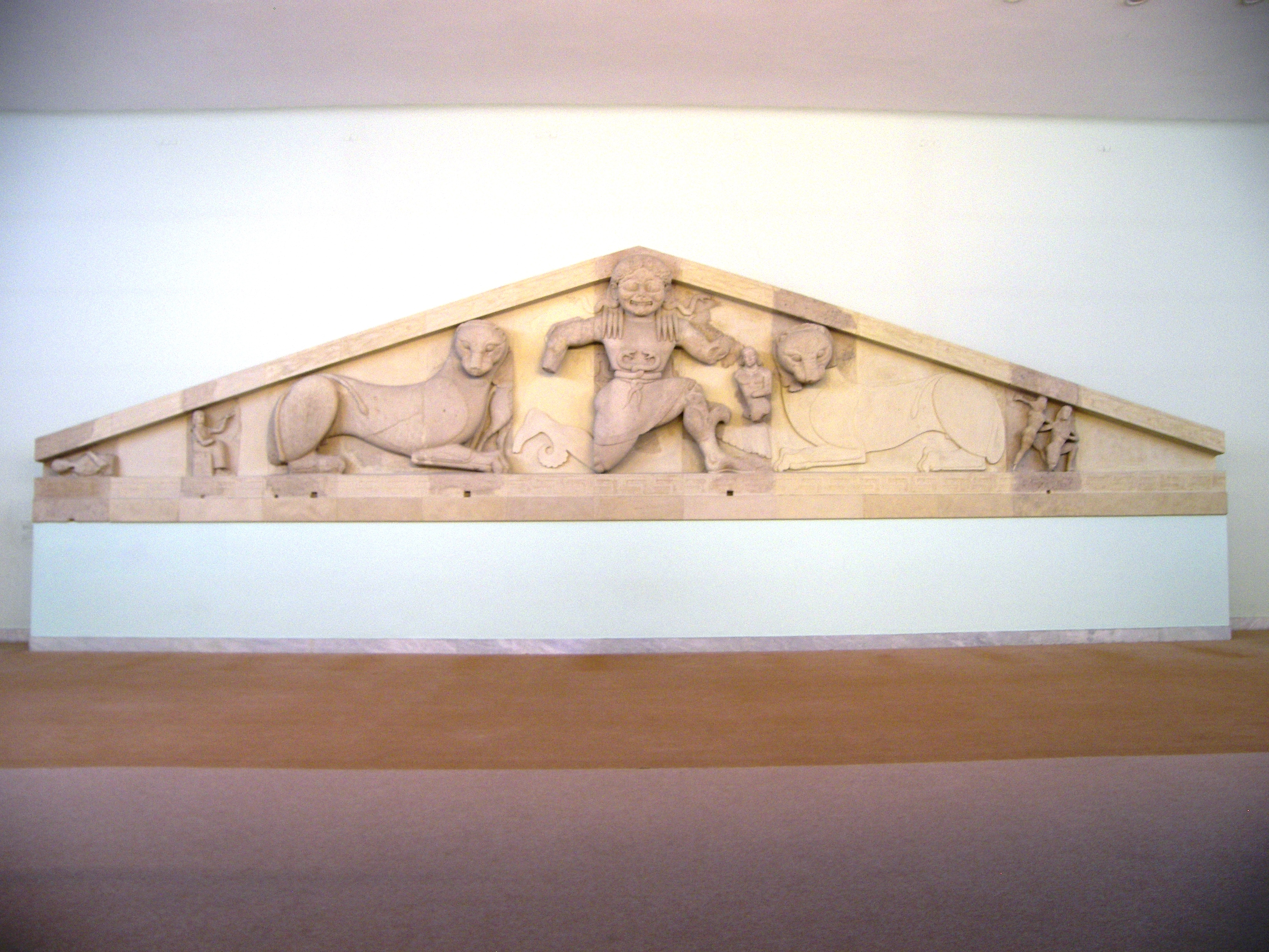 Please see filename